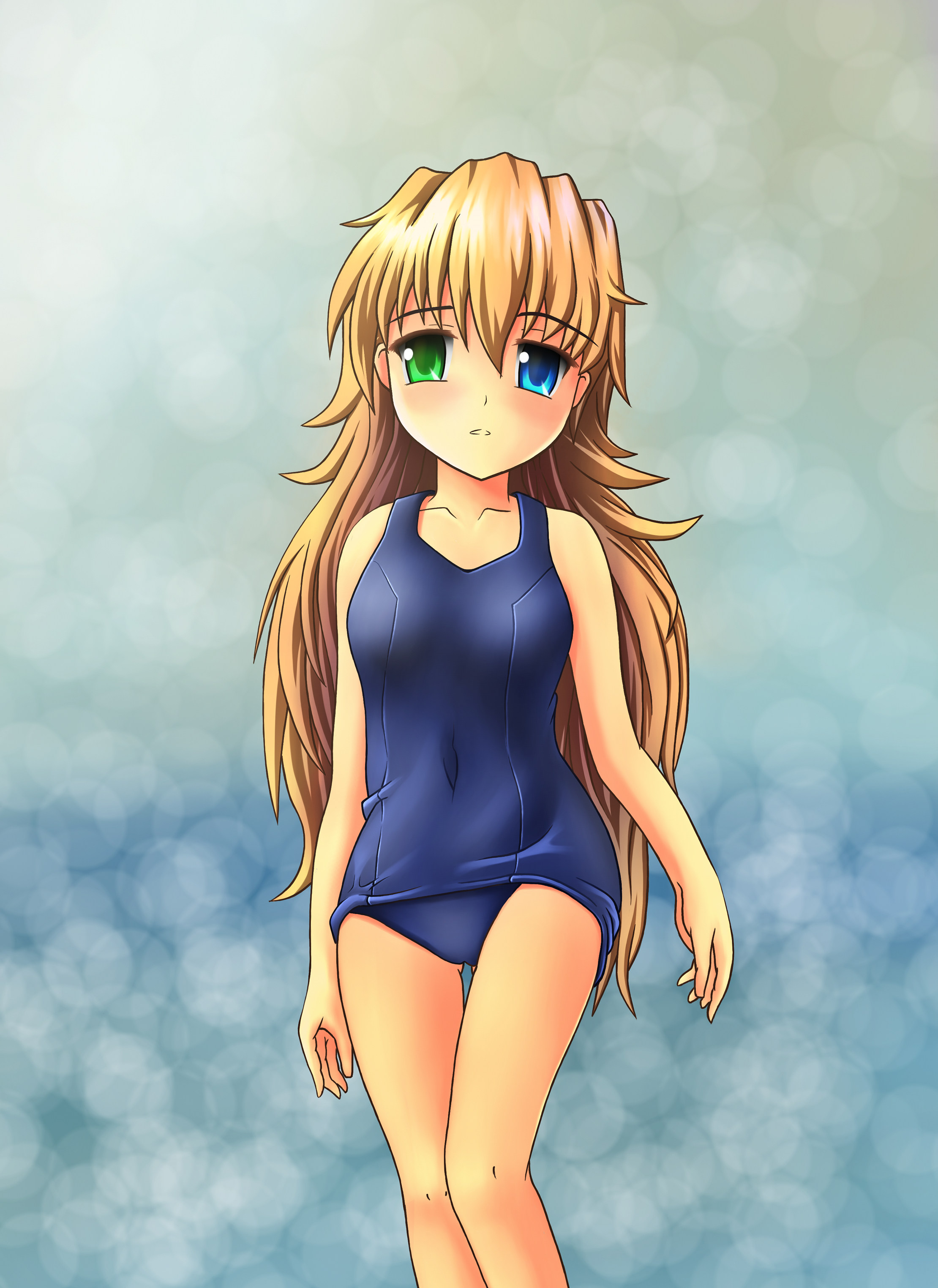 Drawing of girl wearing a Sukumizu in a typical drawing style for anime and manga.